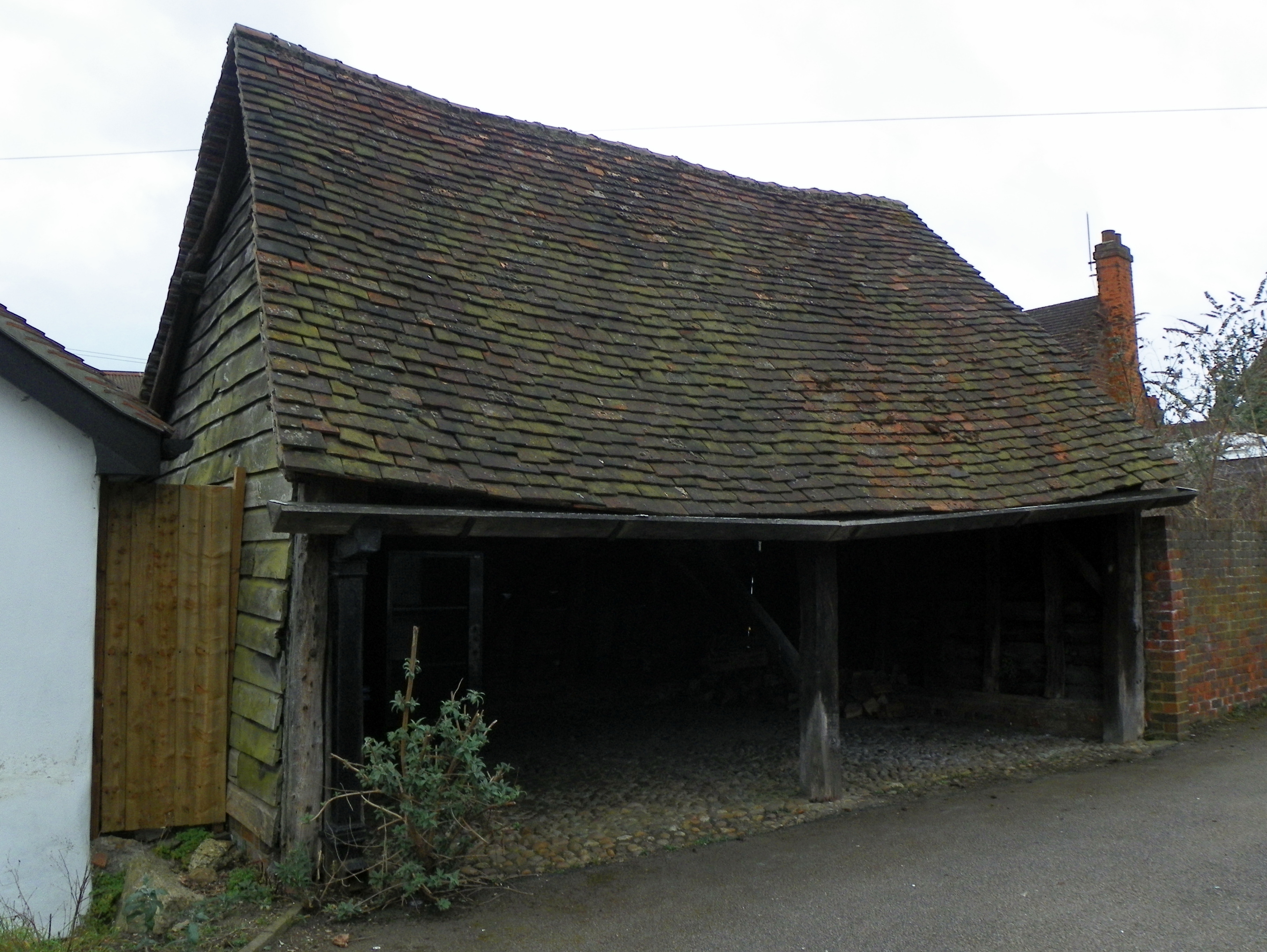 Trigg's Barn, Stevenage, Hertfordshire, England.